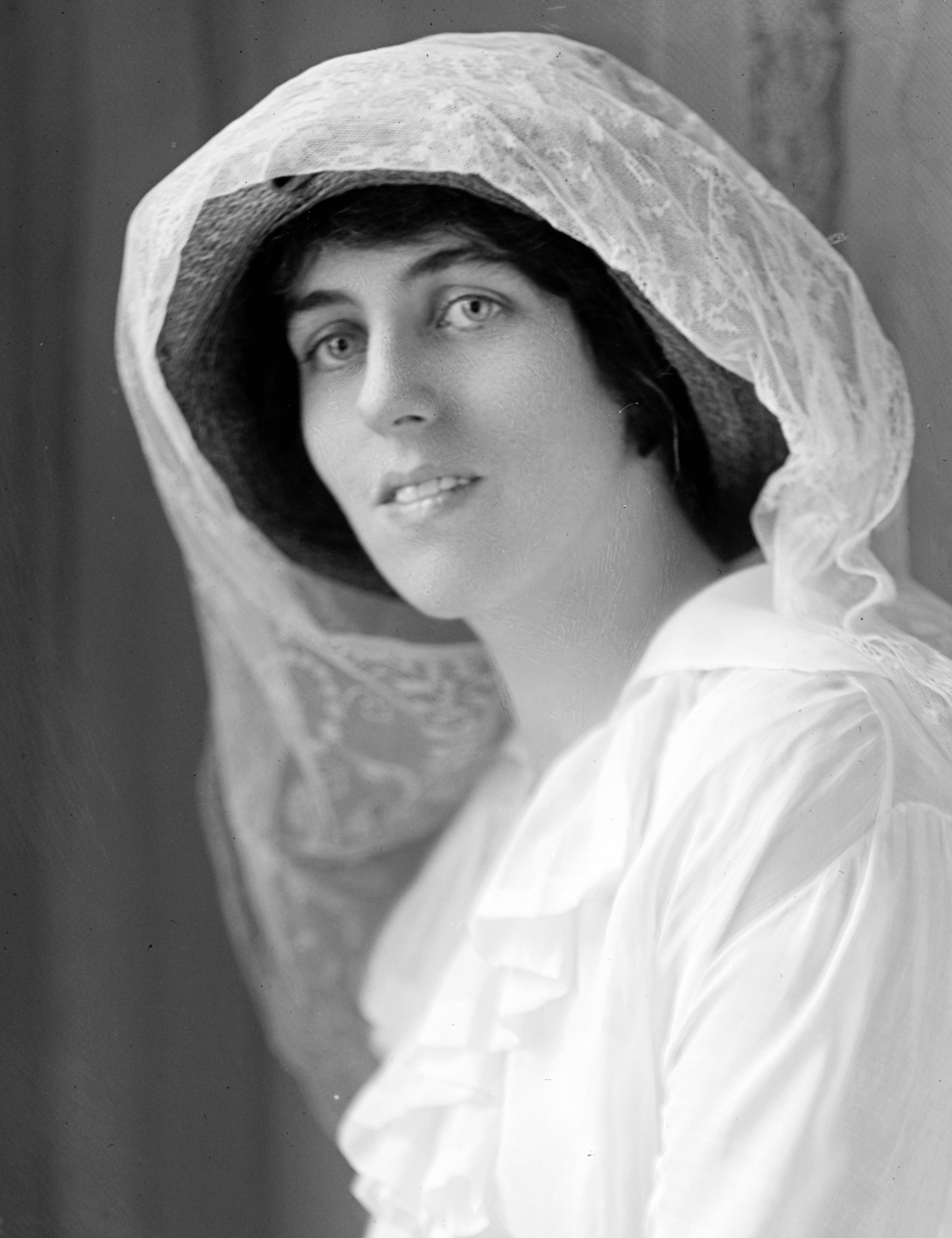 Portrait photograph of Eleanor Randolph Wilson McAdoo (1889-1967); cropped from File:Eleanor Randolph Wilson by Harris & Ewing (LOC hec.17173).jpg